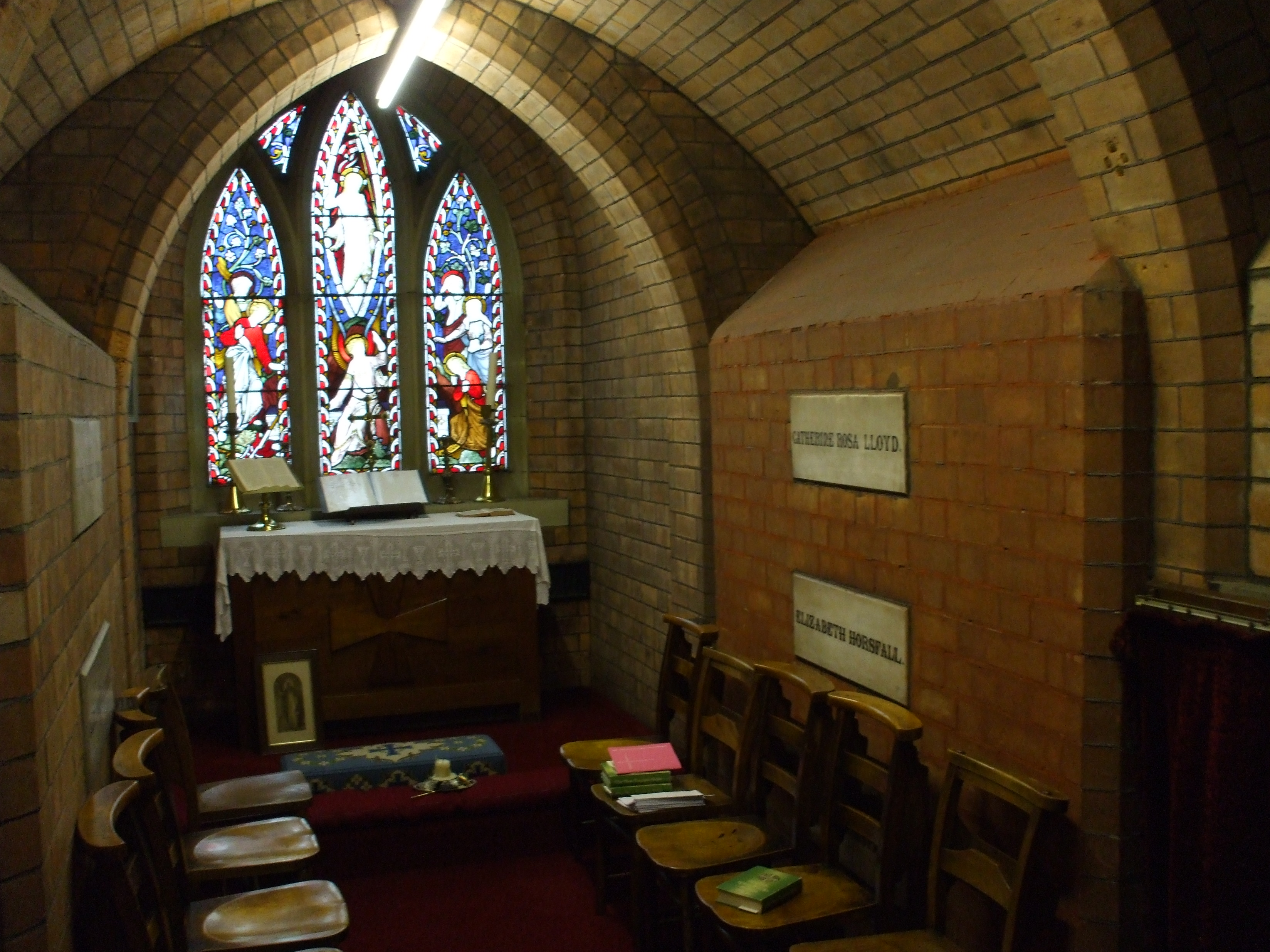 St Cyprians Hay Mill Horsfall Chapel